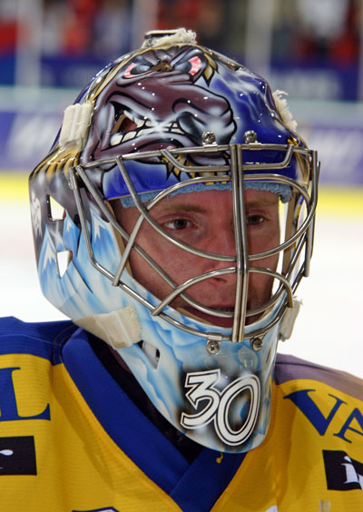 Andy Foliot